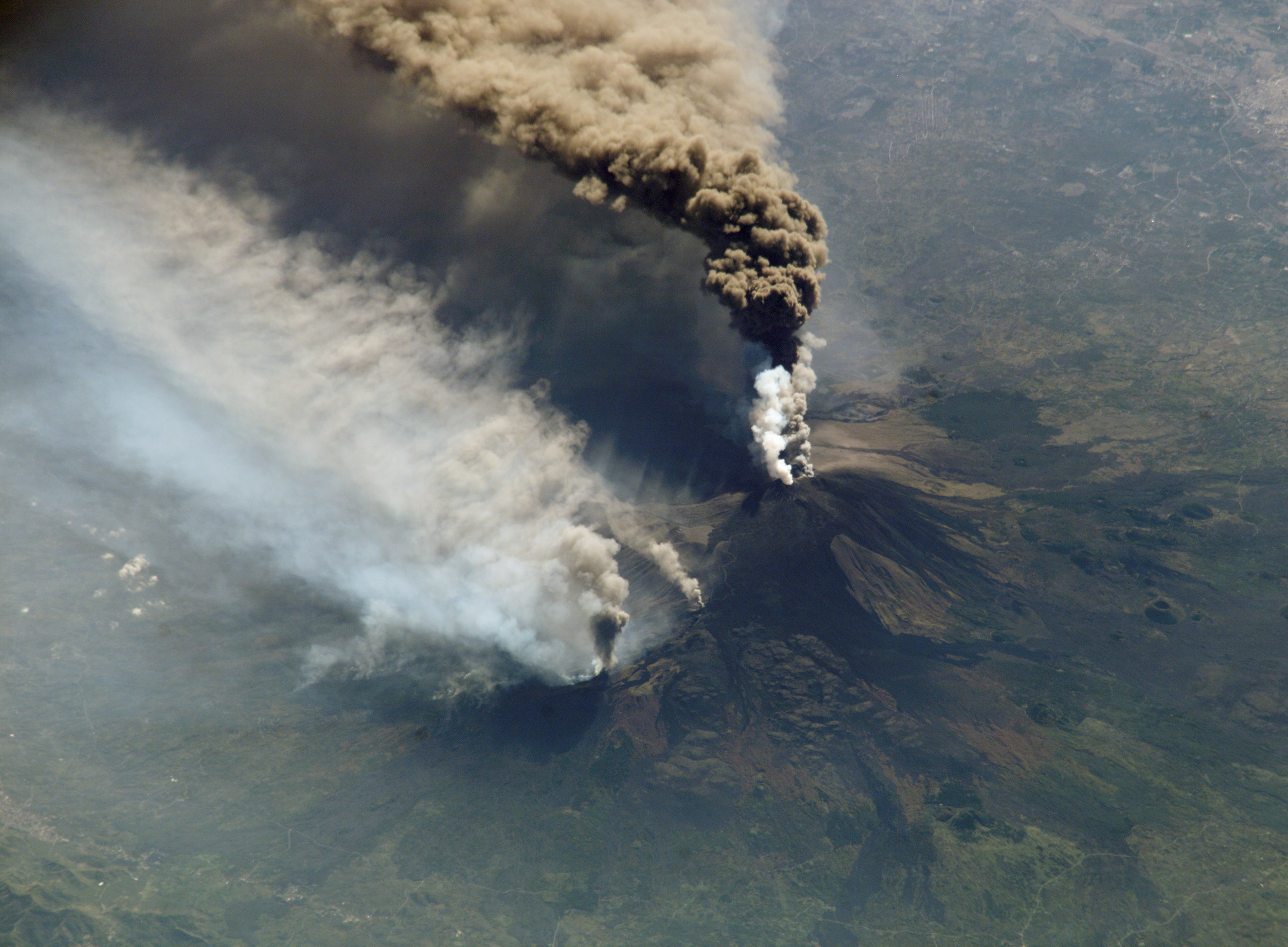 ISS005-E-19024 --- The three-member crew of the Expedition Five mission onboard the International Space Station was able to observe Mt. Etna’s spectacular eruption, and photograph the details of the eruption plume and smoke from fires triggered by the lava as it flowed down the 11,000 ft mountain. This image and a second image (ISS005-E-19016) are looking obliquely to the southeast over the island of Sicily. This wider view (ISS005-E-19024) shows the ash plume curving out toward the horizon, caught first by low-level winds blowing to the southeast, and to the south toward Africa at higher altitudes. Ashfall was reported in Libya, more than 350 miles away. The lighter-colored plumes downslope and north of the summit seen in this frame are produced by forest fires set by lava flowing into the pine forests on the slope of the mountain. This image provides a more three-dimensional profile of the eruption plume. This eruption was one of Etna’s most vigorous in years, volcanologists reported this week. The eruption was triggered by a series of earthquakes on October 27, 2002, they said. These images were taken on October 30. Although schools were closed and air traffic was diverted because of the ash, no towns or villages were reported to have been threatened by the lava flow.